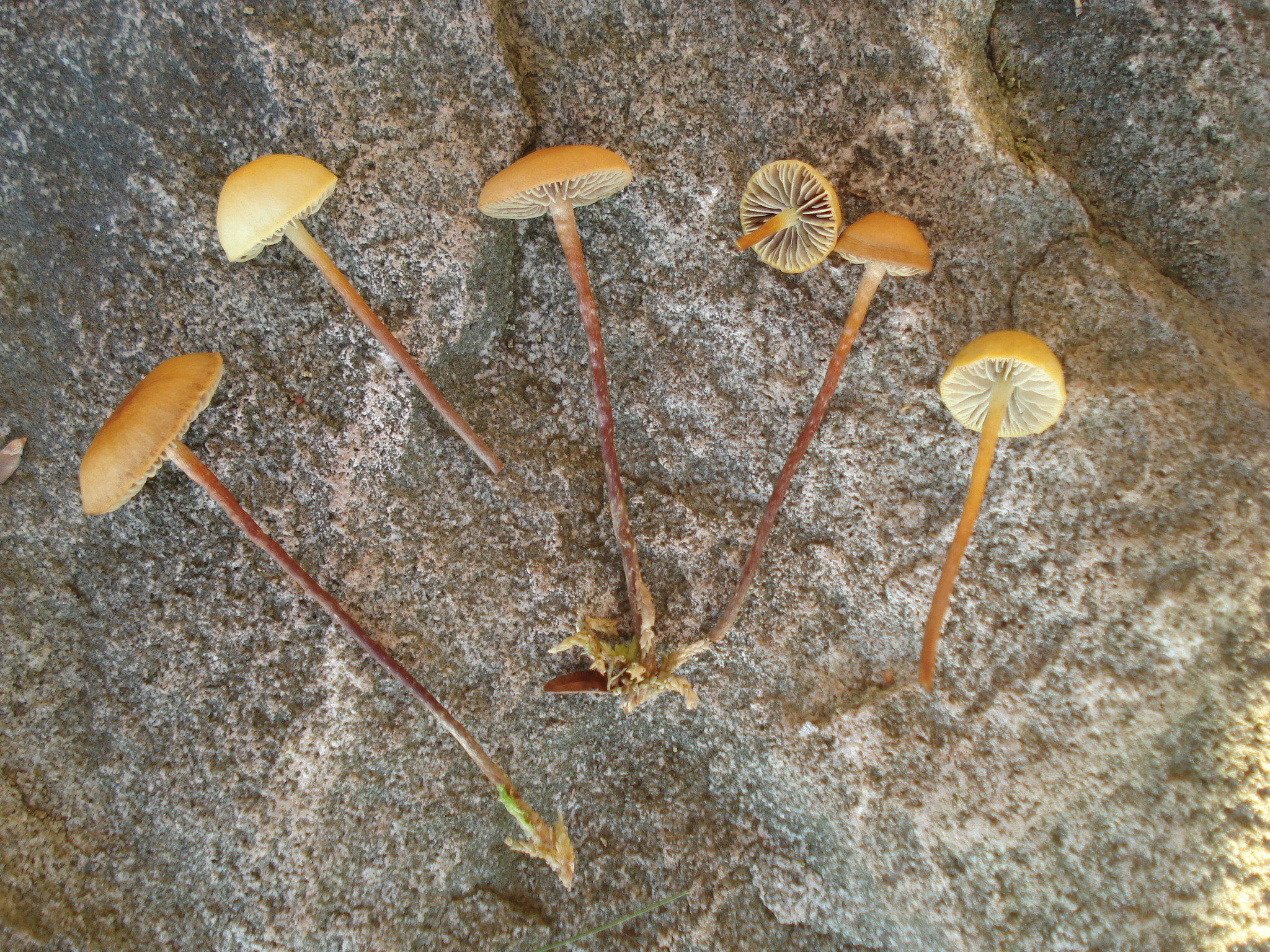 Fruit bodies of the agaric fungus Bogbodia uda (Pers.) Redhead; formerly known as Hypholoma udum (Pers.) Kühner. Photographed in Sullivan Co., Pennsylvania, USA.